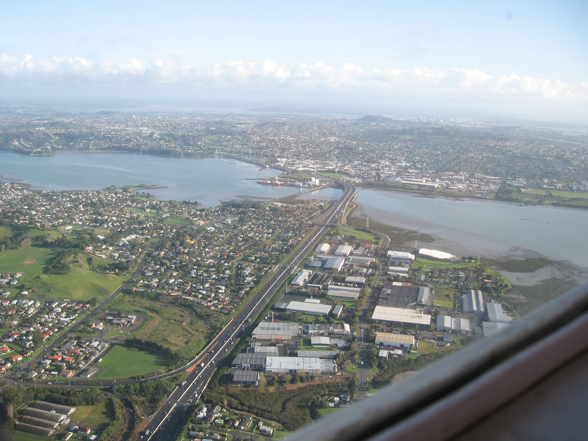 Mangere Bridge (s) in Auckland, New Zealand. Looking north along State Highway 20.